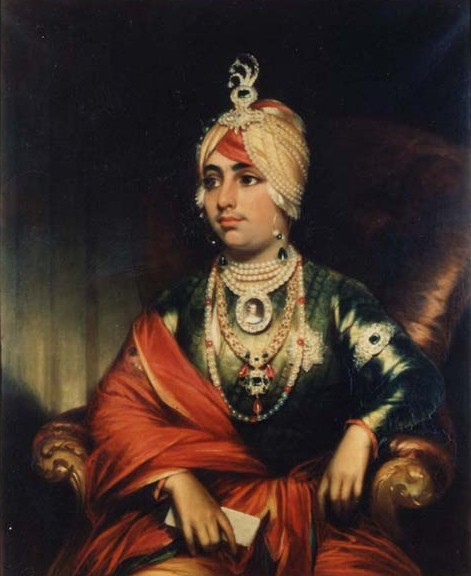 Duleep Singh (1838-1893), in ceremonial dress